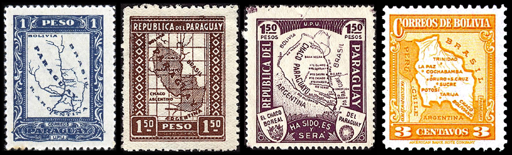 Postage stamps of Paraguay and Bolivia with their maps during war for Grand Chaco, 1924-1935